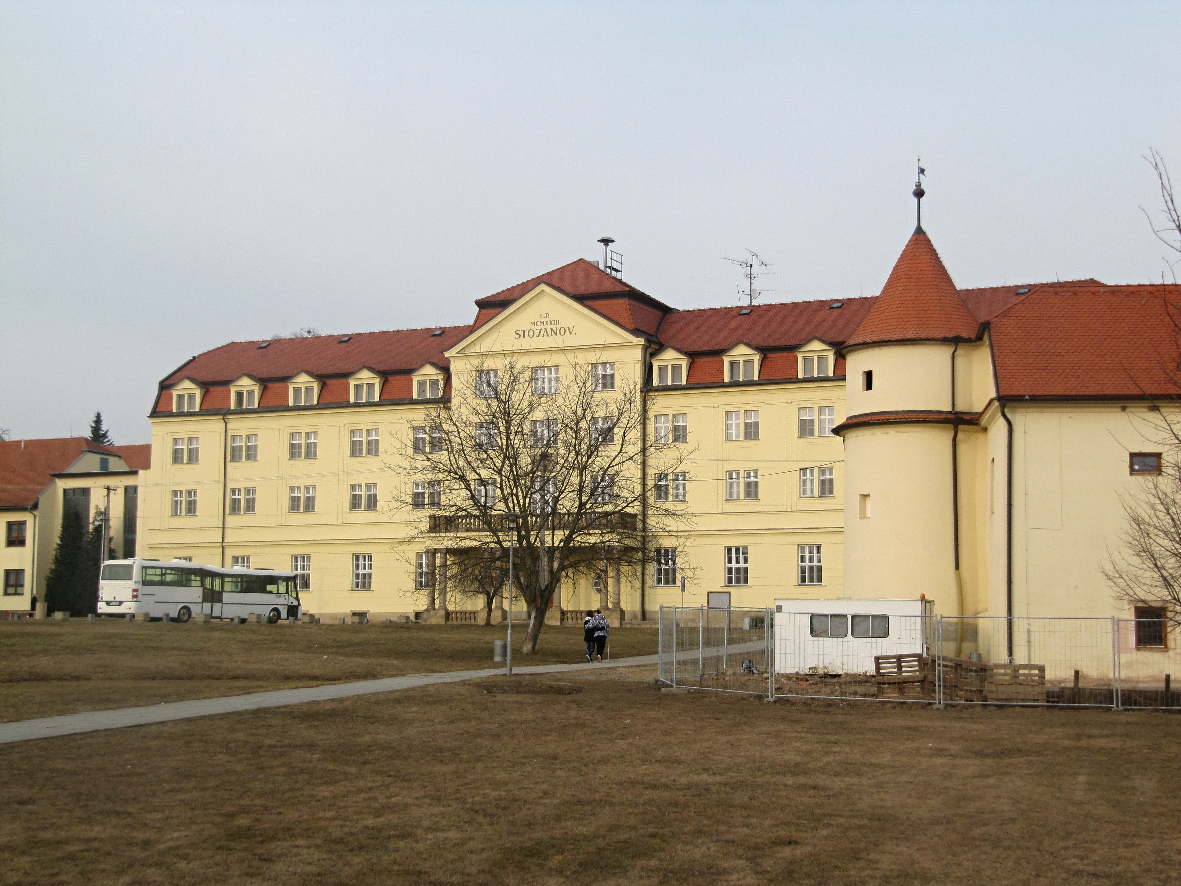 Velehrad in Uherské Hradiště District, Czech Republic. Grammar school.